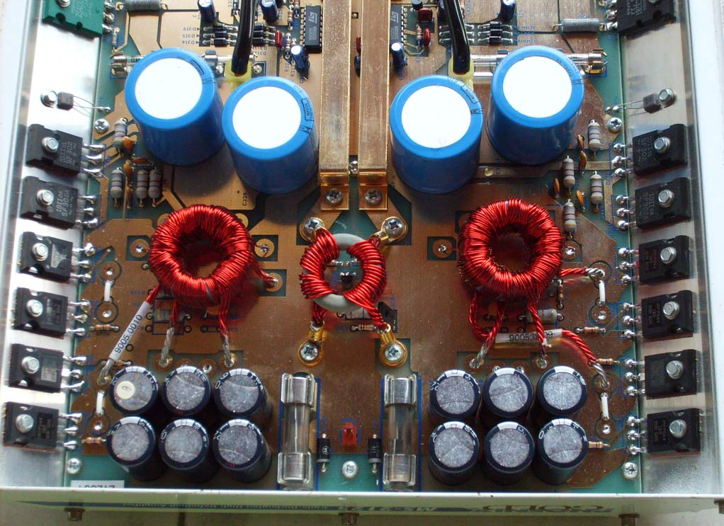 Car audio system amplifier Phoenix Gold MS2125, power supply end